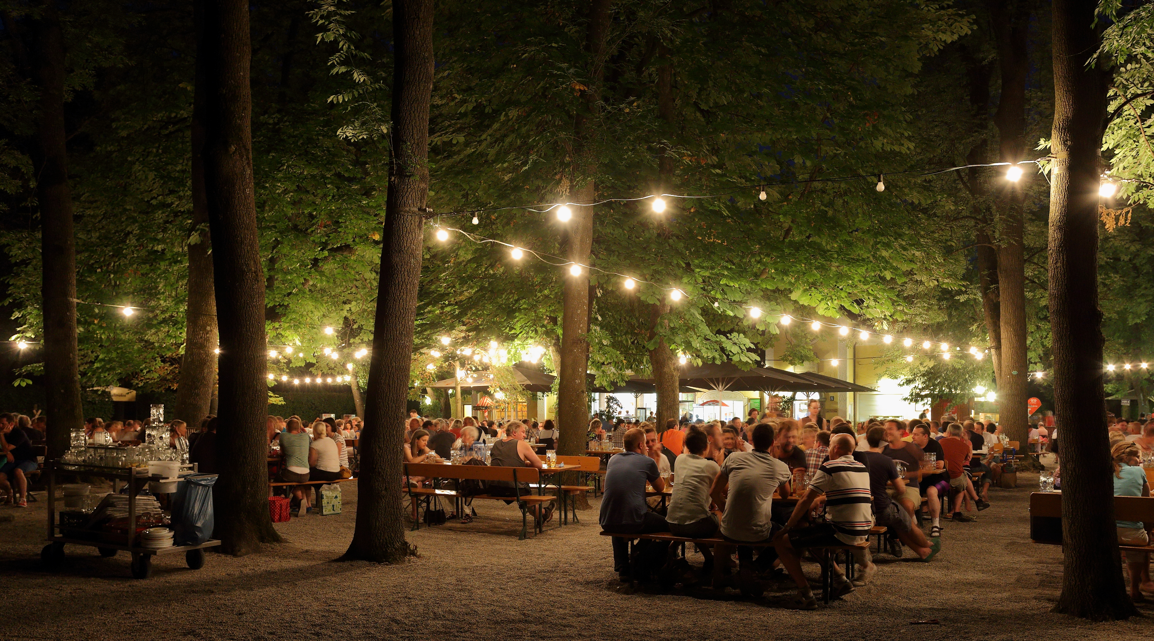 Cropped version of